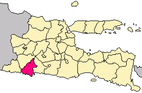 Trenggalek in East Java, Indonesia